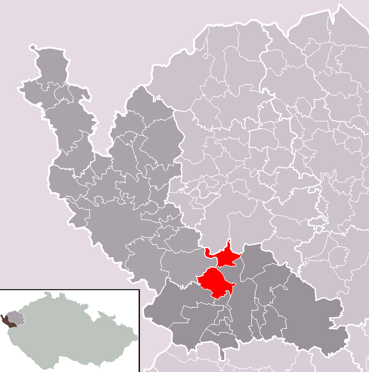 Location of Lázně Kynžvart town within Cheb District and administrative area of Mariánské Lázně as a Municipality with Extended Competence.